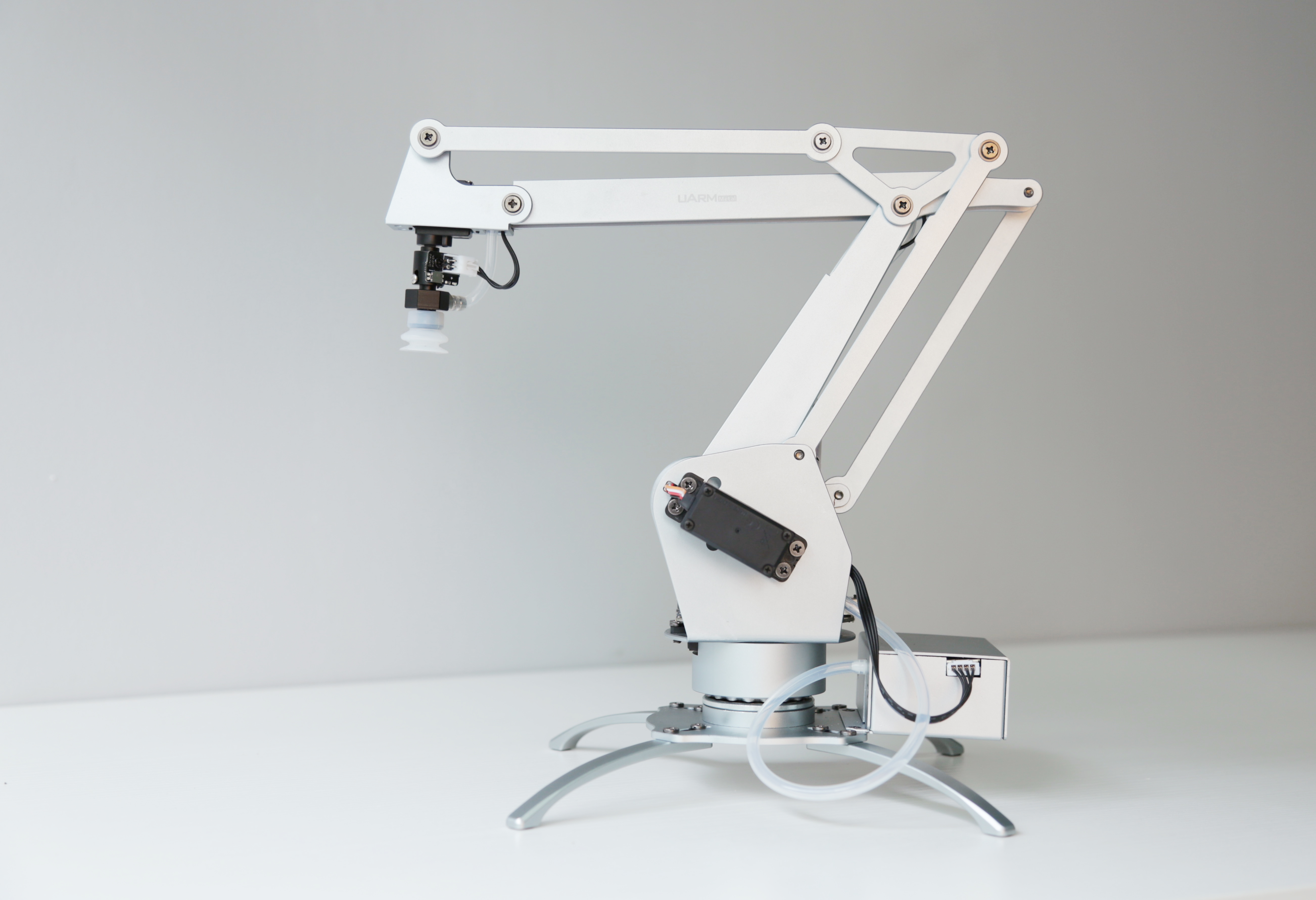 uarm metal wiki2